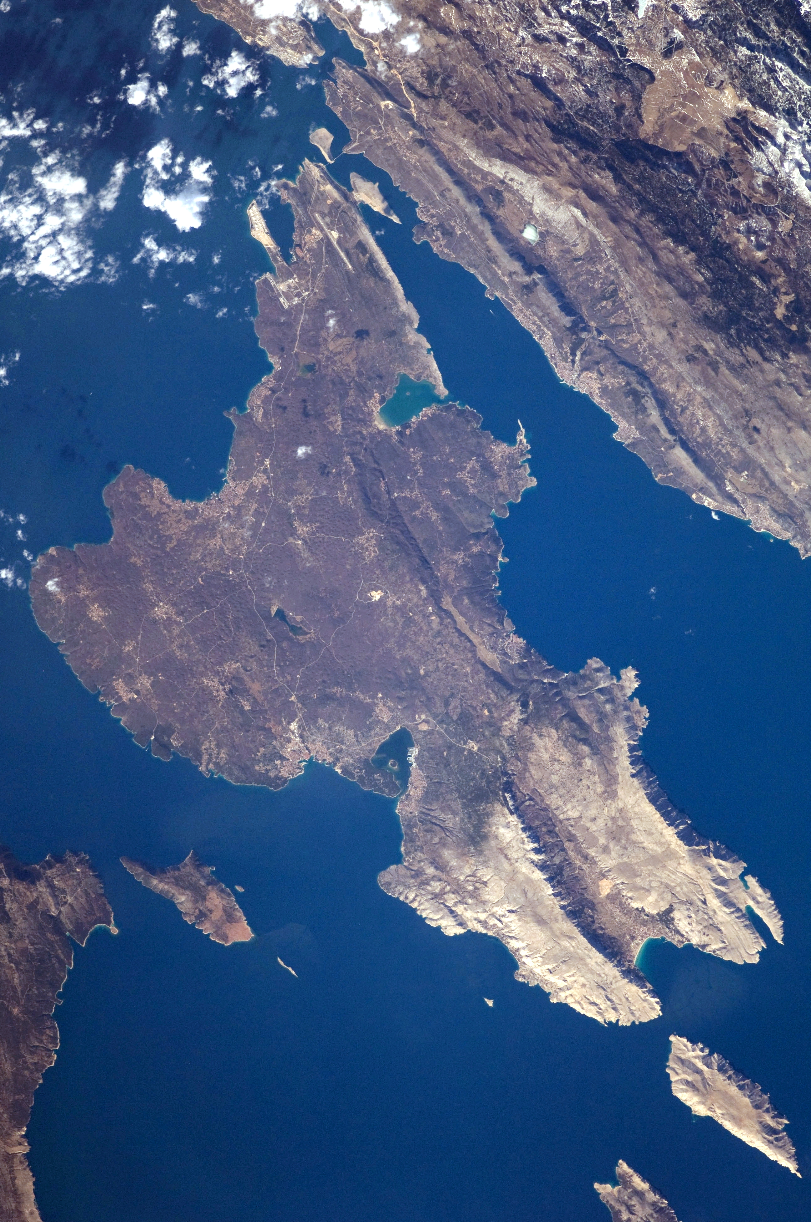 Island of Krk as seen from satellite